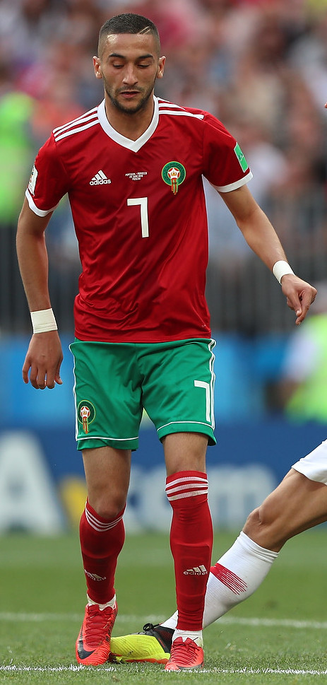 Portugal-Morocco match, 2018 FIFA World Cup